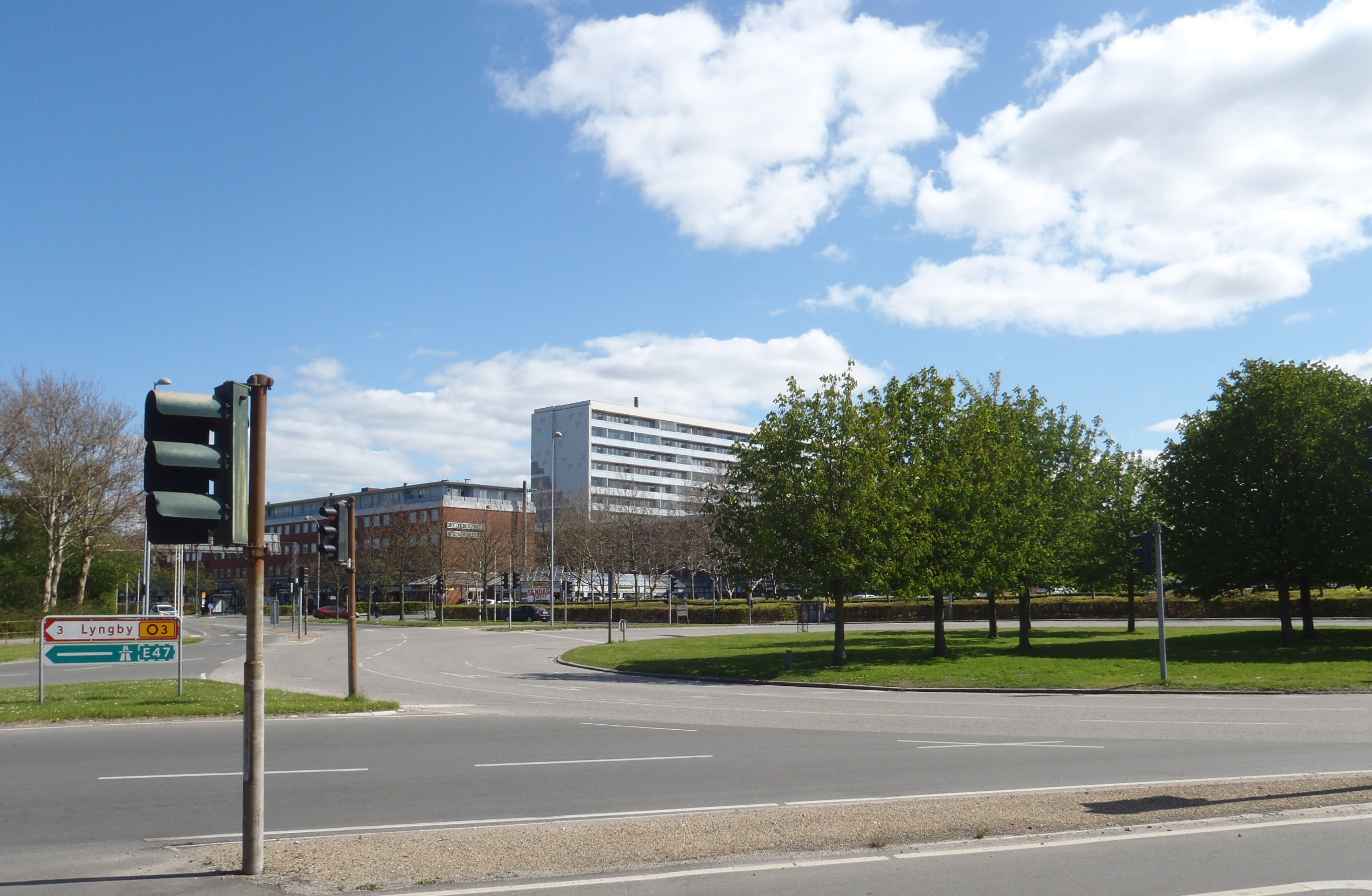 Buddinge, Denmark, 2012-05-06. Suburb of Copenhagen at the big roundabout.